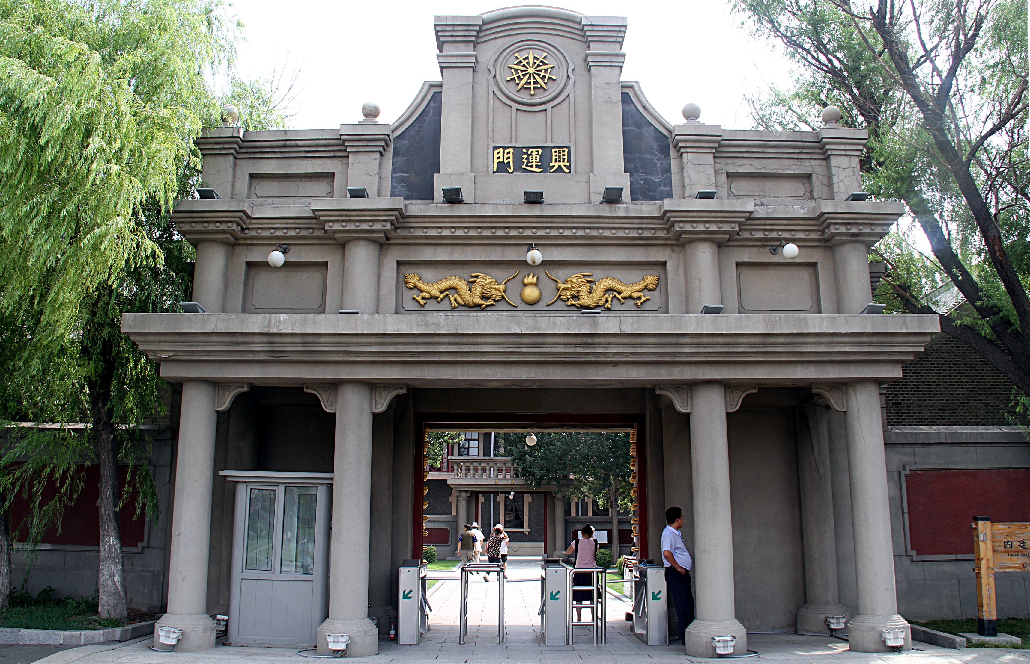 Photograph of the entrance to the Museum of the Imperial Palace of the Manchu State, Changchun, Jilin province, northeast China.